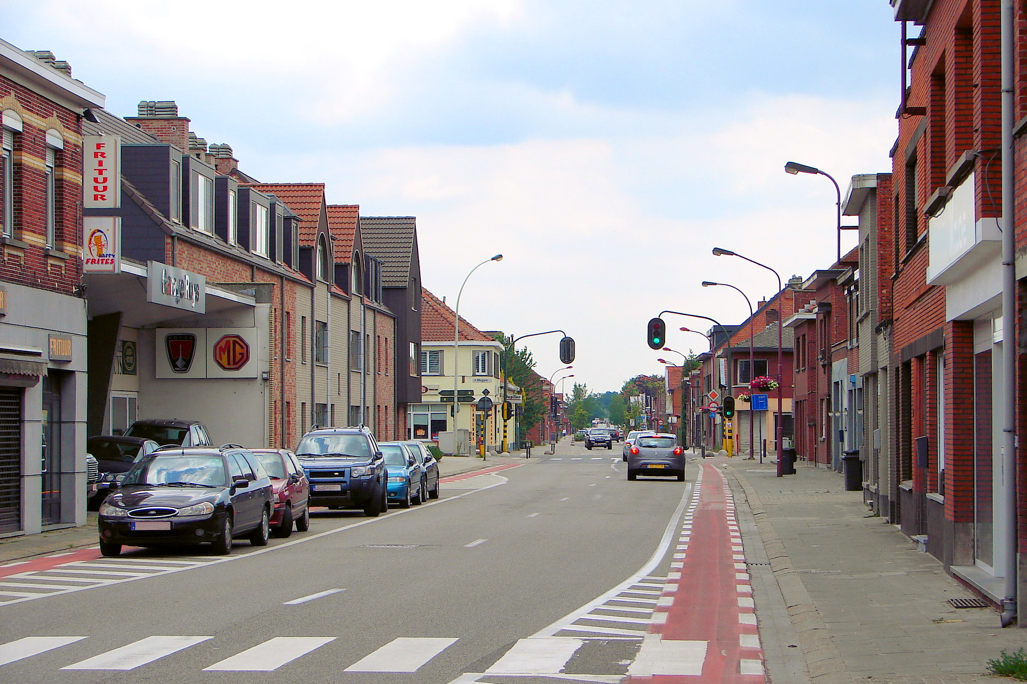 Achterbroek (municipality Kalmthout), Belgium